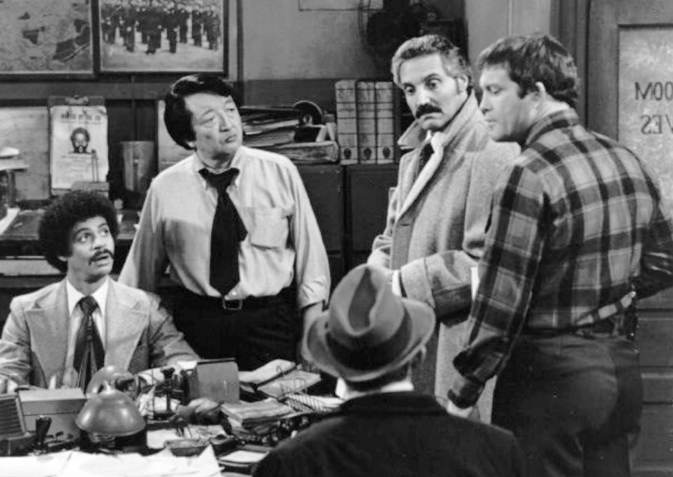 Cast photo from the television series Barney Miller Clockwise from left: Ron Glass (Ron Harris}, Jack Soo (Nick Yemana), Barney Miller (Hal Linden), Max Gail ("Wojo" Wojciehowicz}, Abe Vigoda (Phil Fish) (back toward camera).